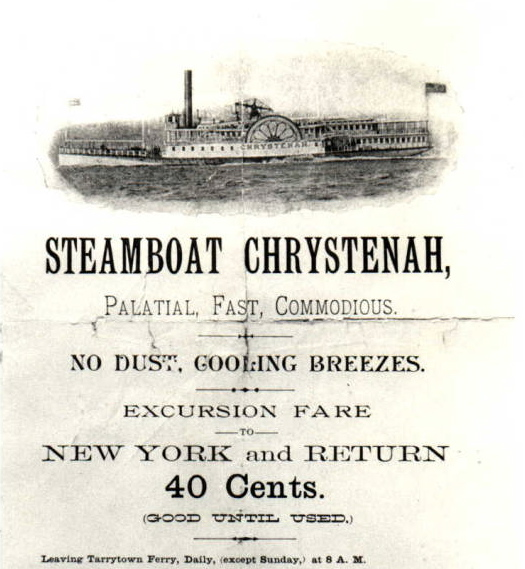 Handbill promoting Hudson River steamboat Chrystenah, built 1866.